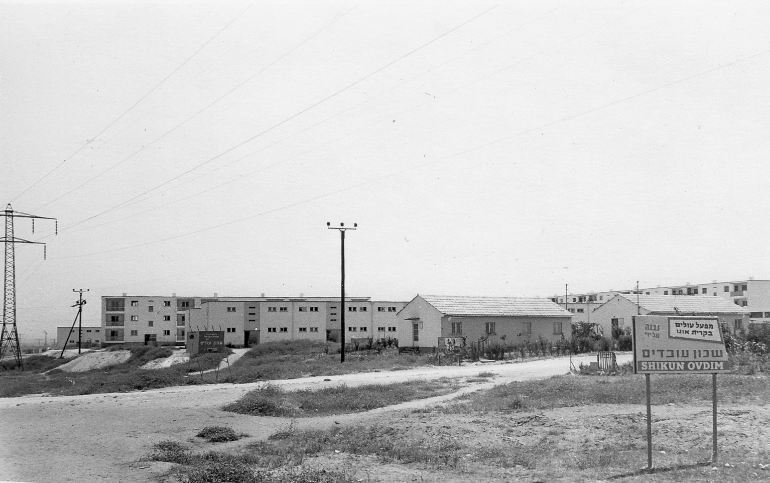 High voltage power line, Architecture of Israel, Kiryat Ono, Derech Levi Eshkol (corner of Jerusalem street)